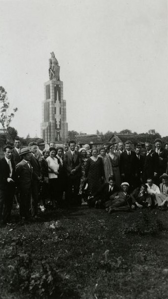 Group photo near the Vytautas the Great Monument in Perloja, Lithuania. The monument withstood all the World War II occupations of Lithuania.